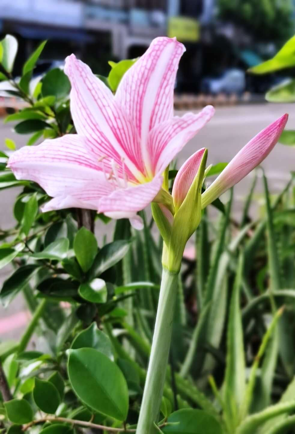 Hippeastrum reticulatum var. striatifolium, Taichung, Taiwan.